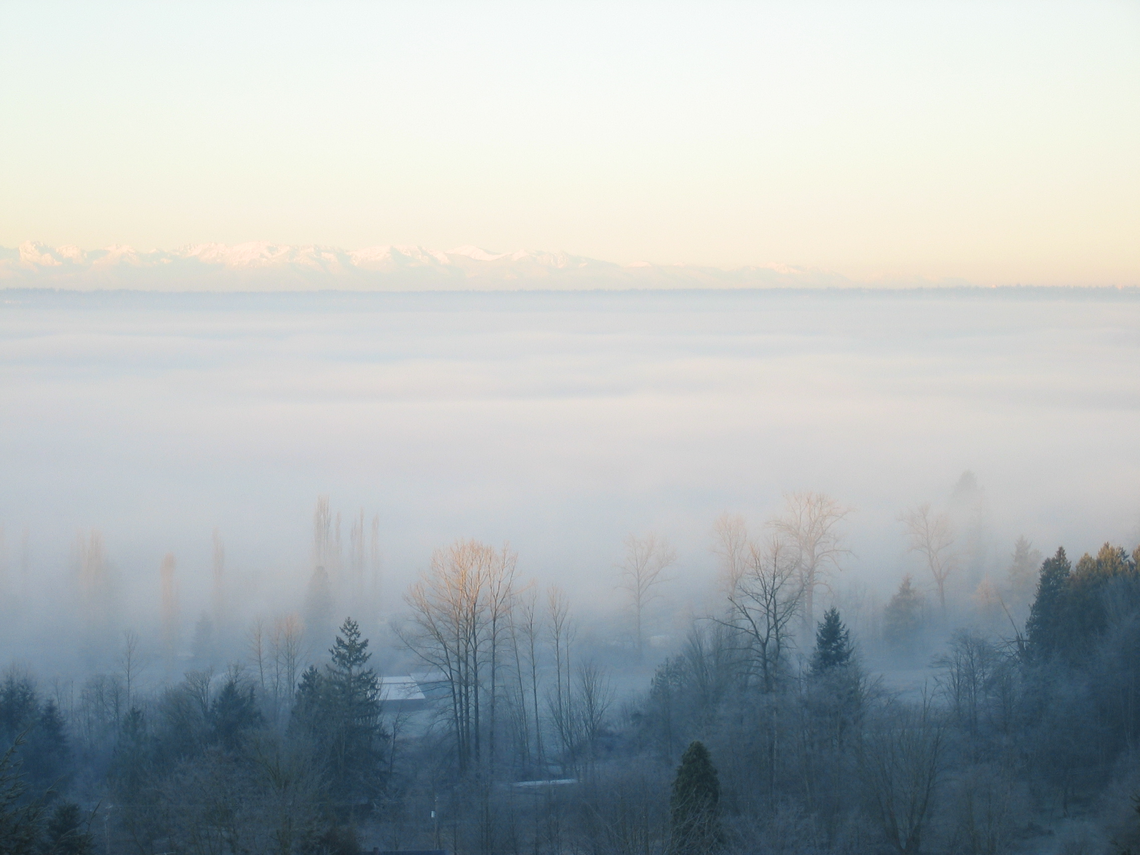 Photo of valley fog in Snohomish County, Washington, USA.